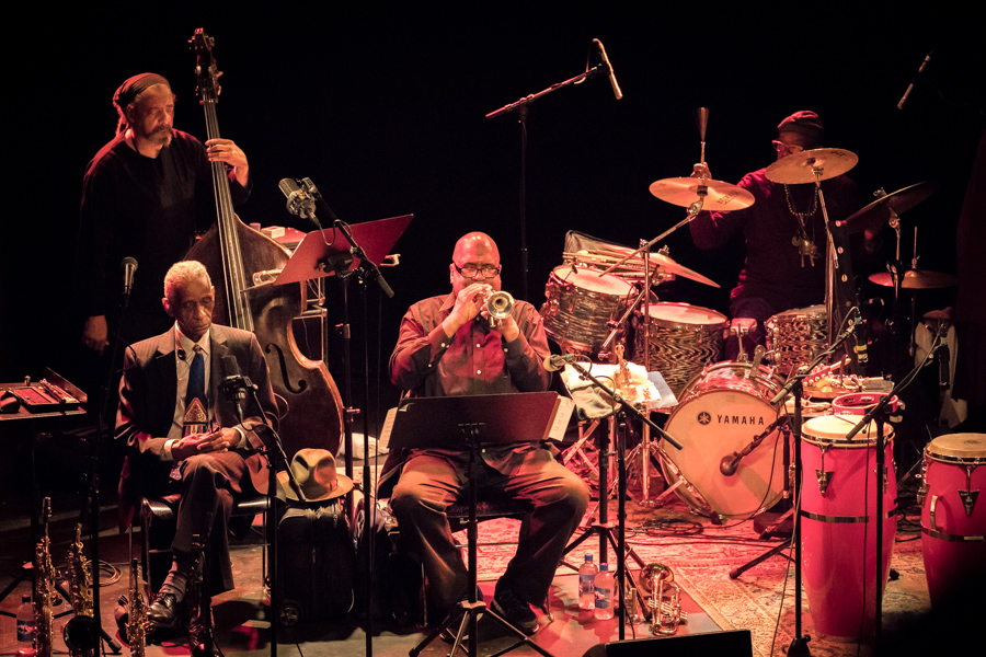 Art Ensemble of Chicago at the stage of Energimølla. The concert was part of Kongsberg Jazzfestival and took place on 07. July 2017.Lineup: Roscoe Mitchell (saxophone), Hugh Ragin (trumpet), Jaribu Shahid (bass guitar), Don Moye (drums).